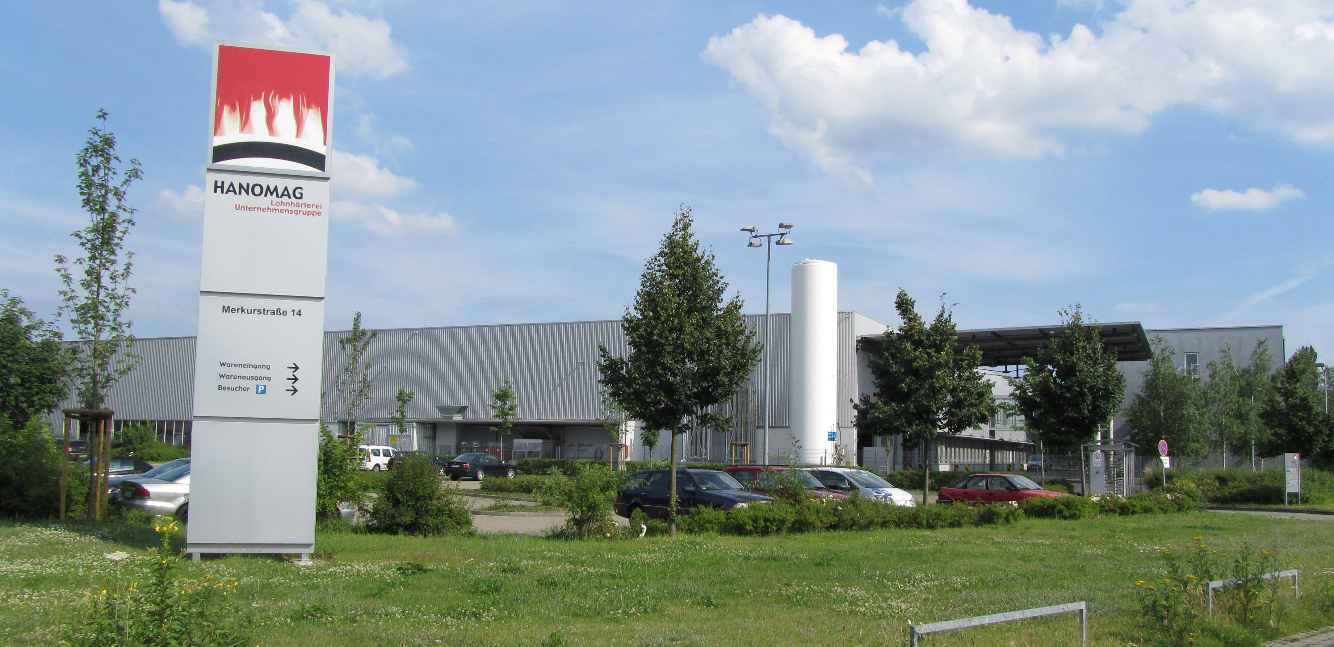 HANOMAG Lohnhärterei group, Hanover, Germany.